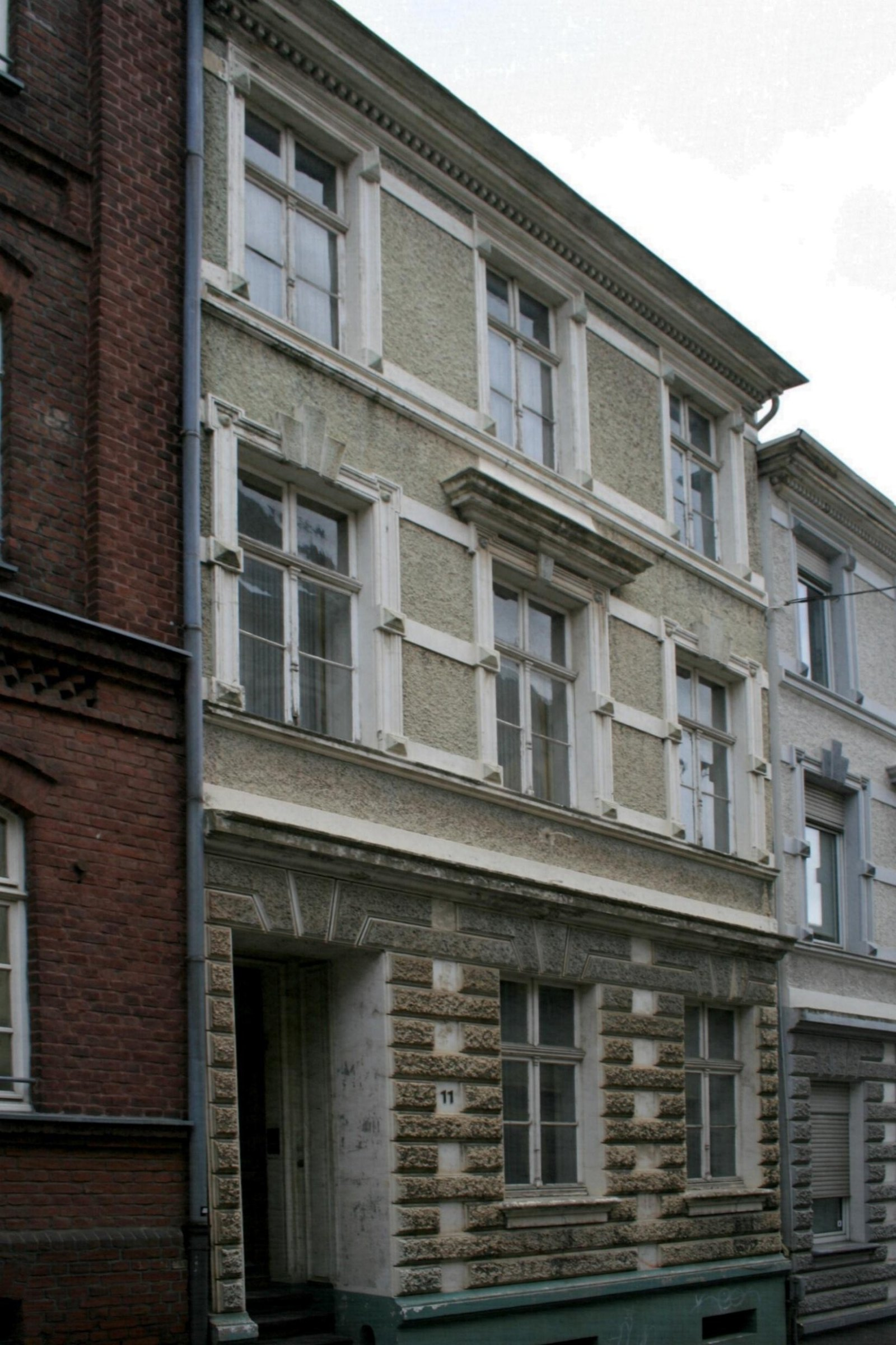 Cultural heritage monument No. L 006 in Mönchengladbach